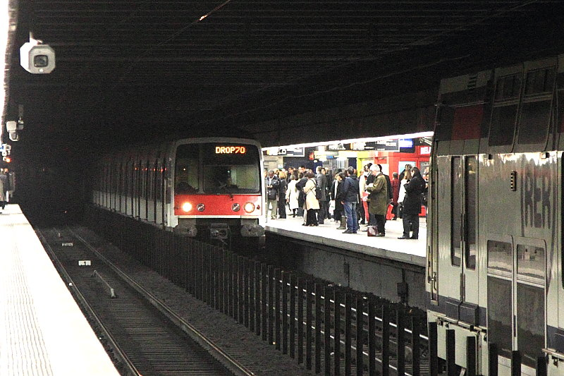 Auber station, Paris RER A. Two trains following each other very closely: possible thanks to SACEM.